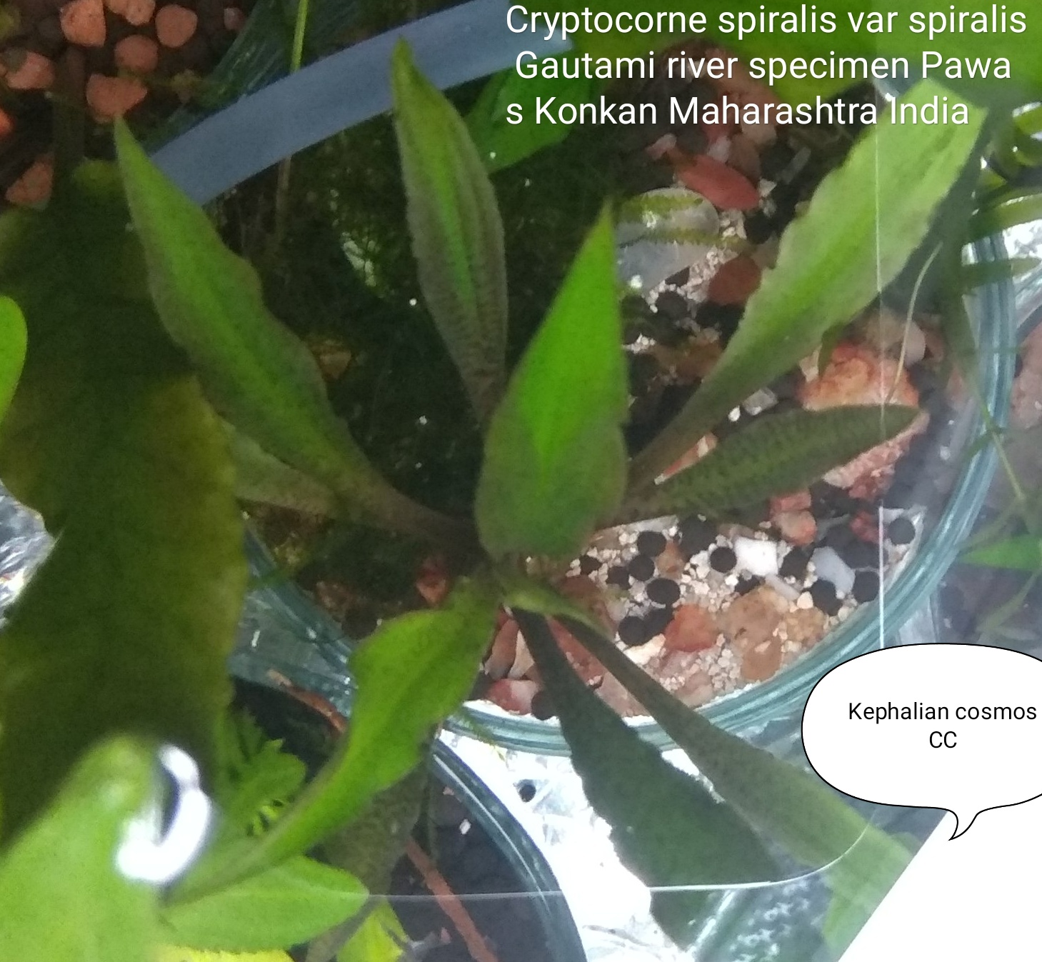 Cryptocorne spiralis var spiralis from the Konkan Maharashtra India